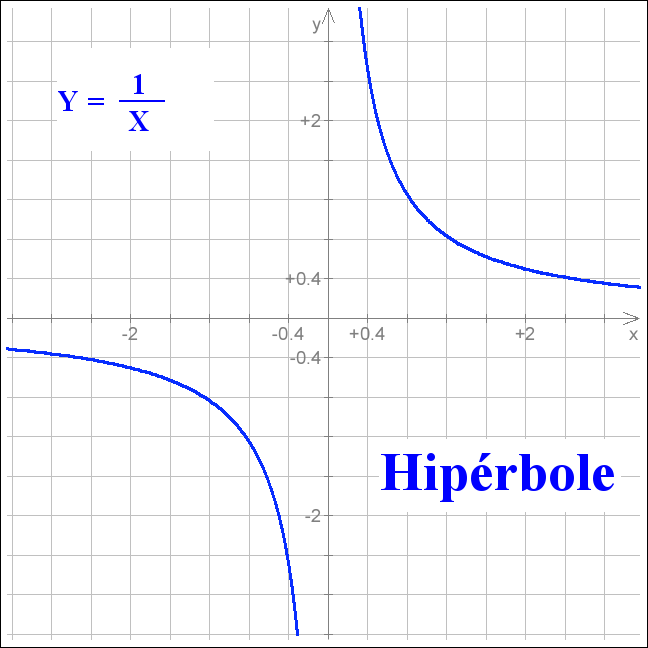 Hyperbola.